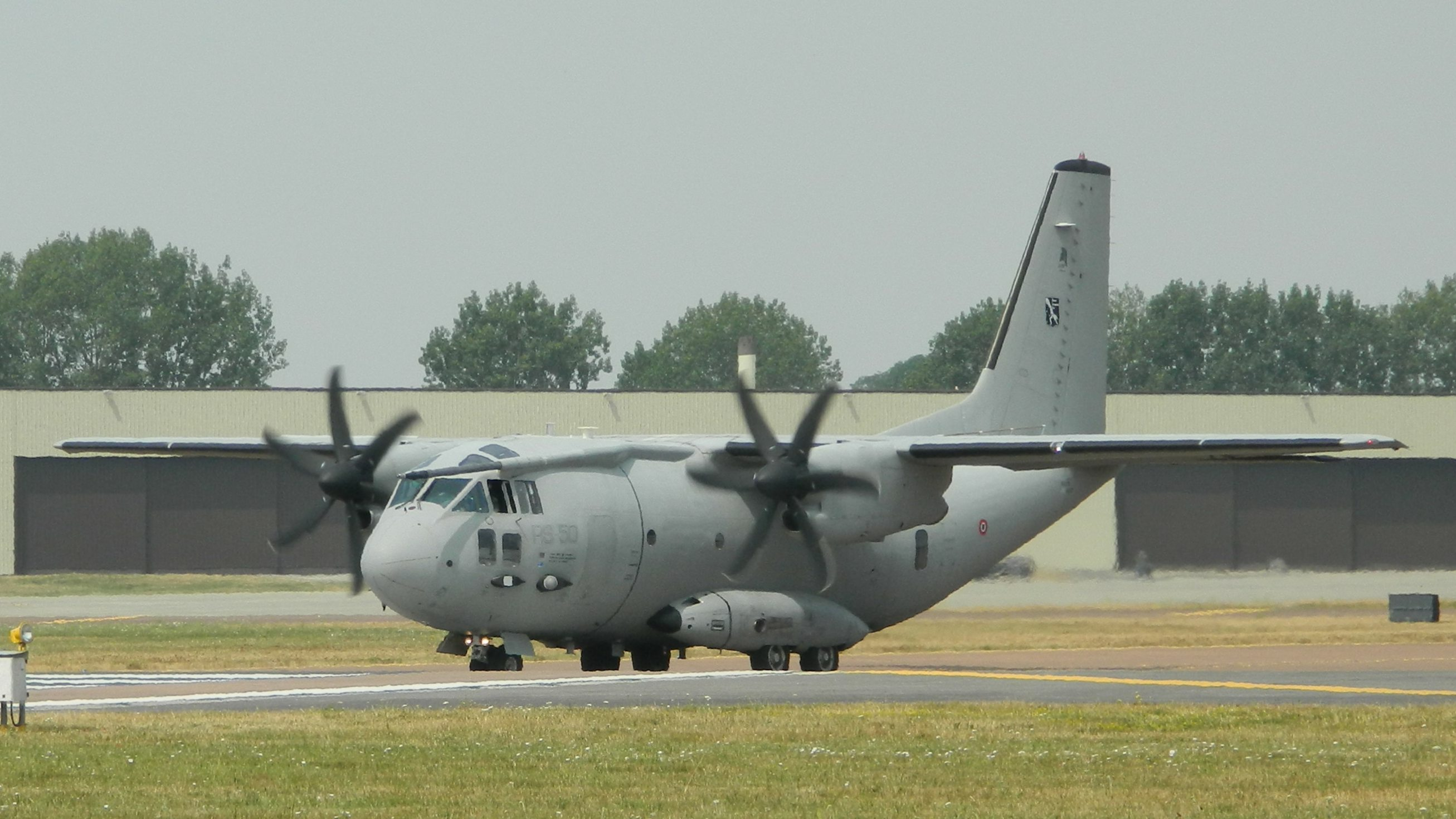 Italian Air Force C-27 Spartan serial number CSX62129 departs RAF Fairford on the Royal International Air Tattoo departure day Monday 22 July 2013.